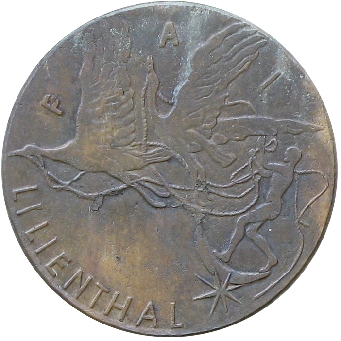 Obverse of the Lilienthal Gliding Medal placed on a memorial plaque at the glider field in Bezmiechowa Górna